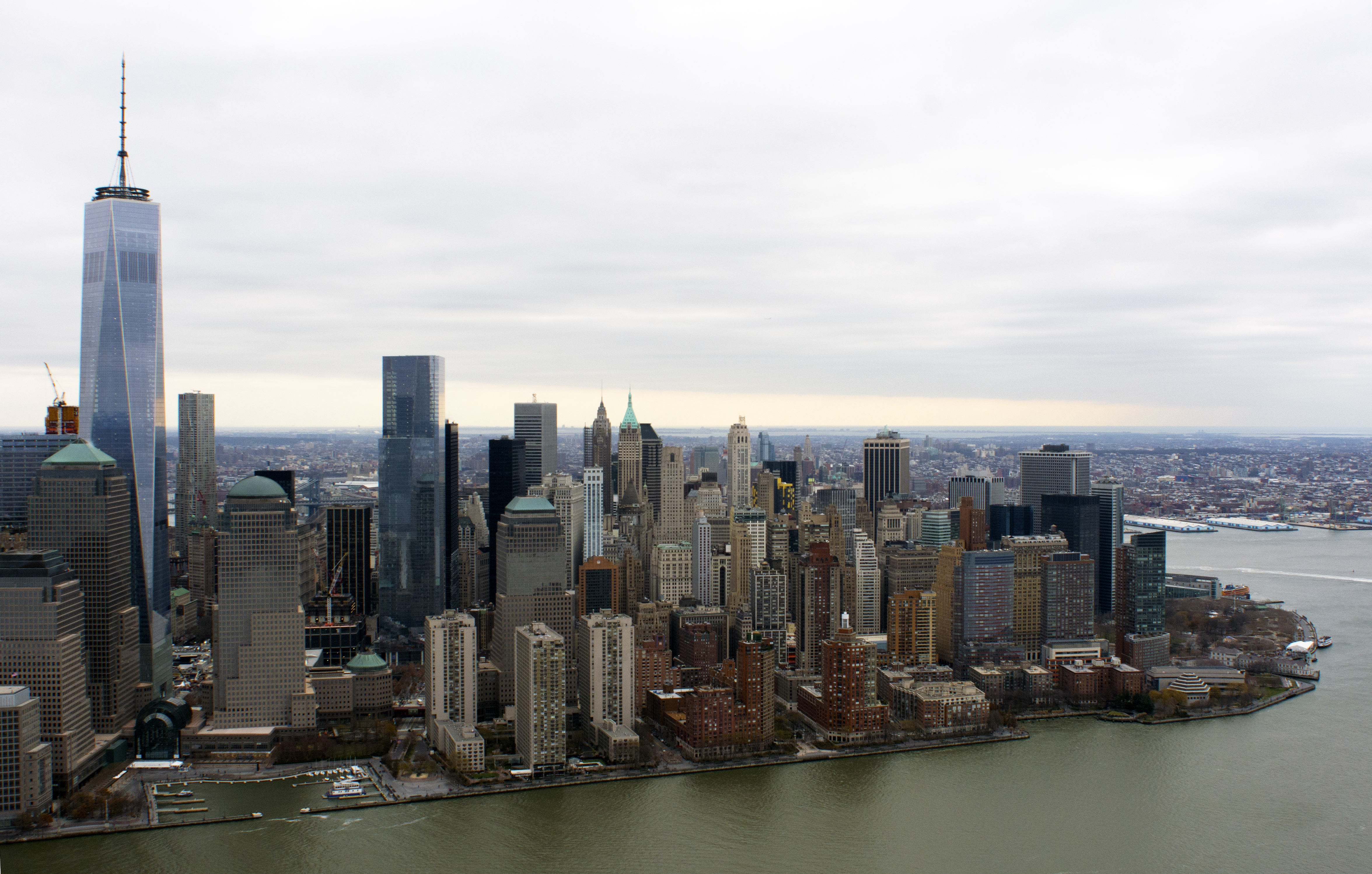 Financial District Lower Manhattan photo D Ramey Logan